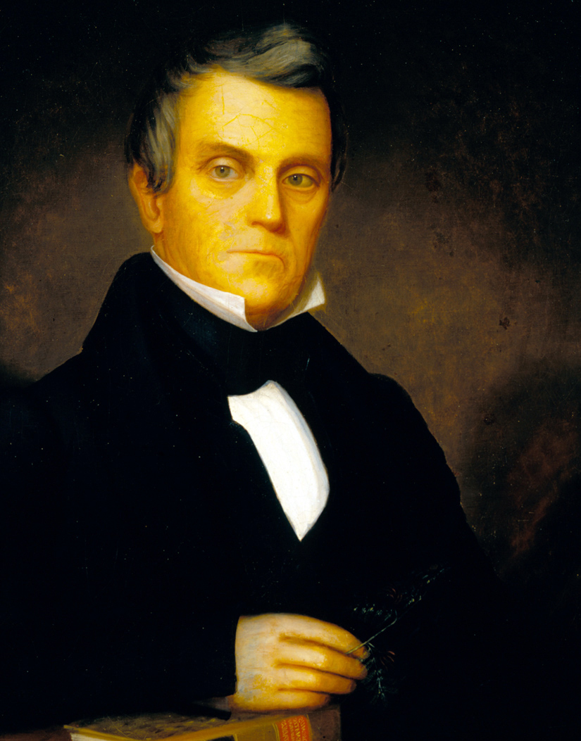 Painted portrait of botanist William Darlington, by Esther C. Strode, c. 1840. - Chester County Historical Society, West Chester, Pa.